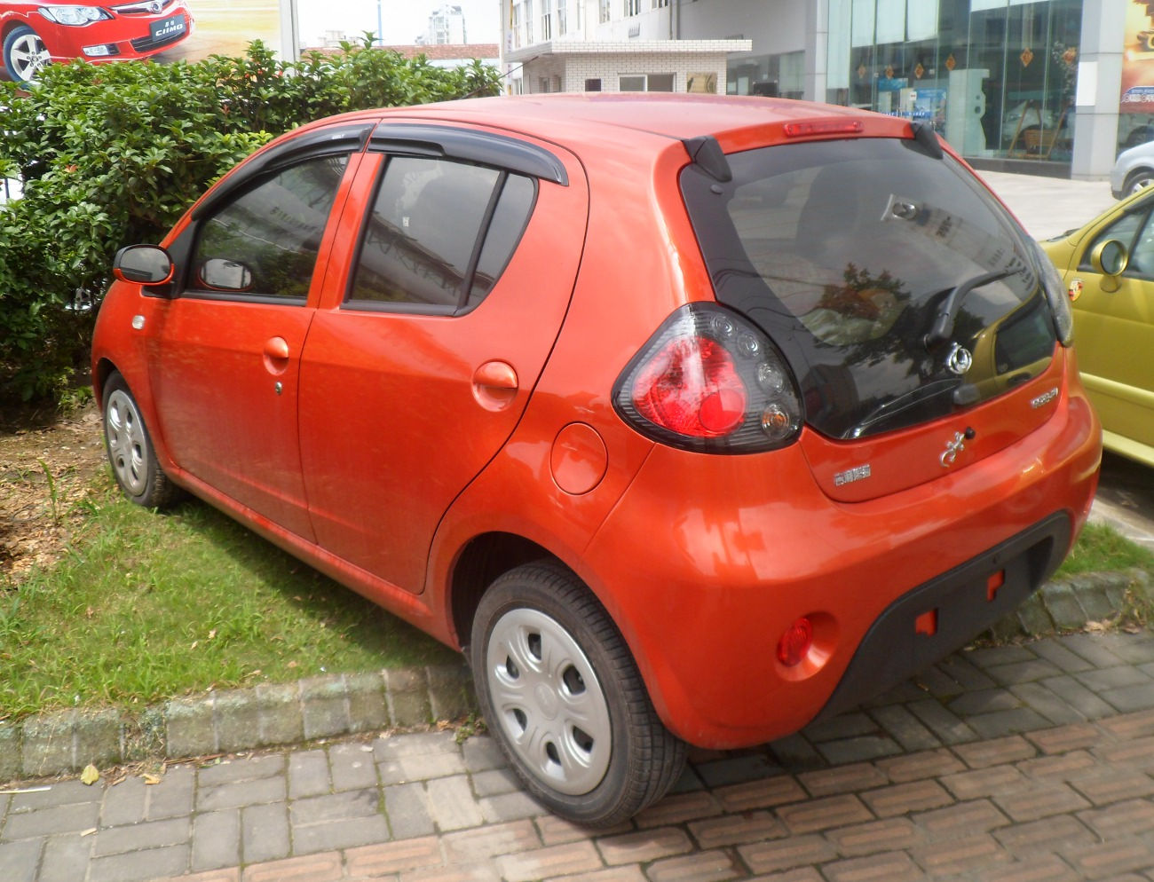 Gleagle Panda photographed in Shanghai, China.